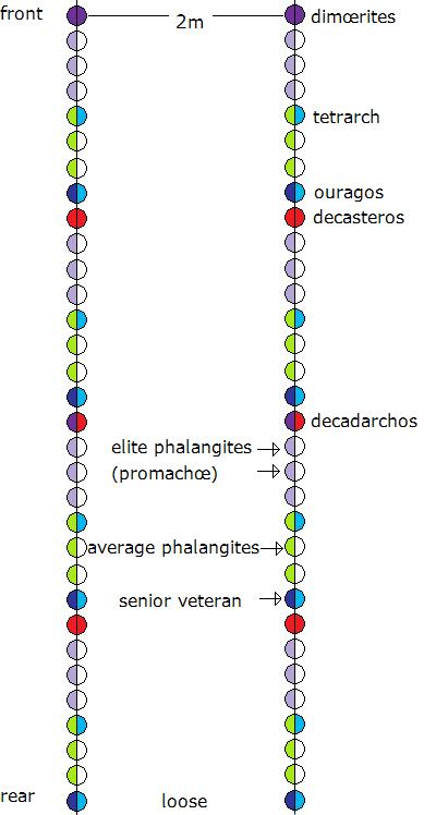 Two enomotiæ in loose formation.